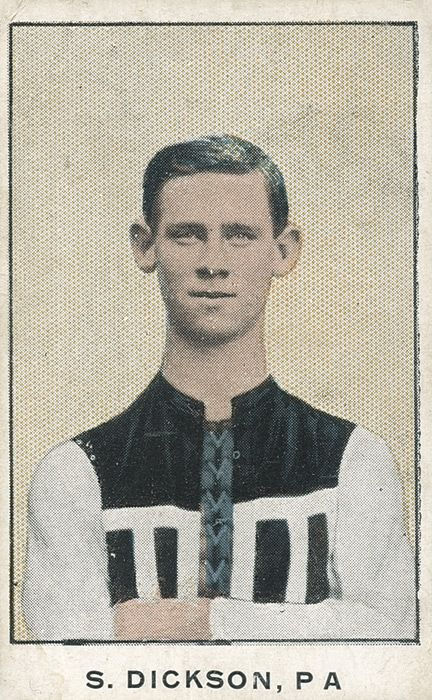 Photo of 1906 Wills cigarette card series for James Dickson.